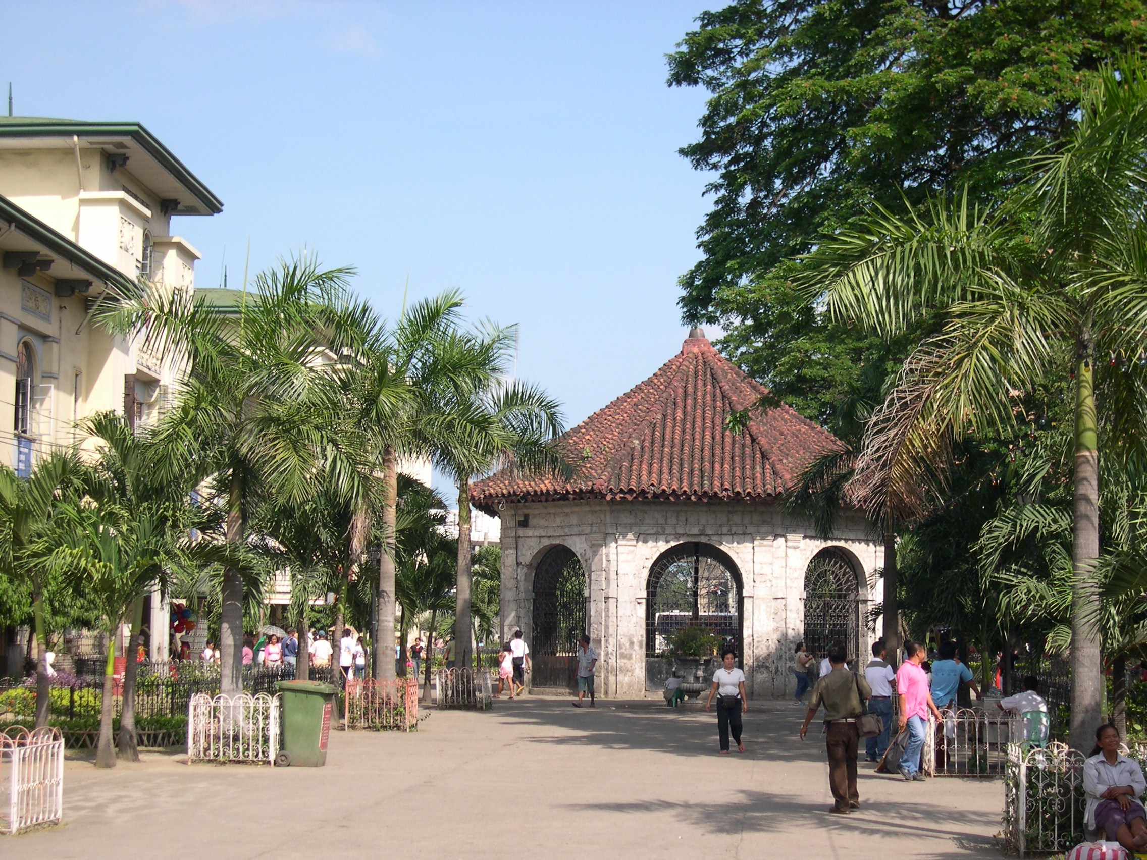 Magellans Cross, one of the most famous landmarks of Cebu City. Picture taken by Magalhães on March 23rd 2006.